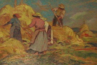 Carlo Domenici, Contadini al lavoro, 1927